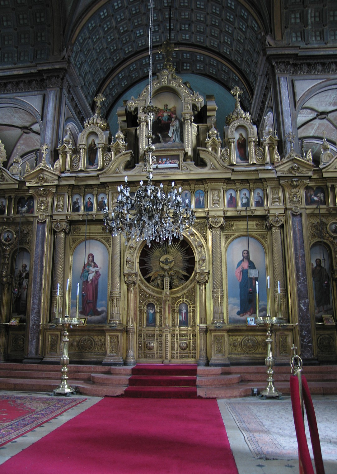 Interior of the Bulgarian Orthodox church of St. Stefan in the Phanar, Istanbul.